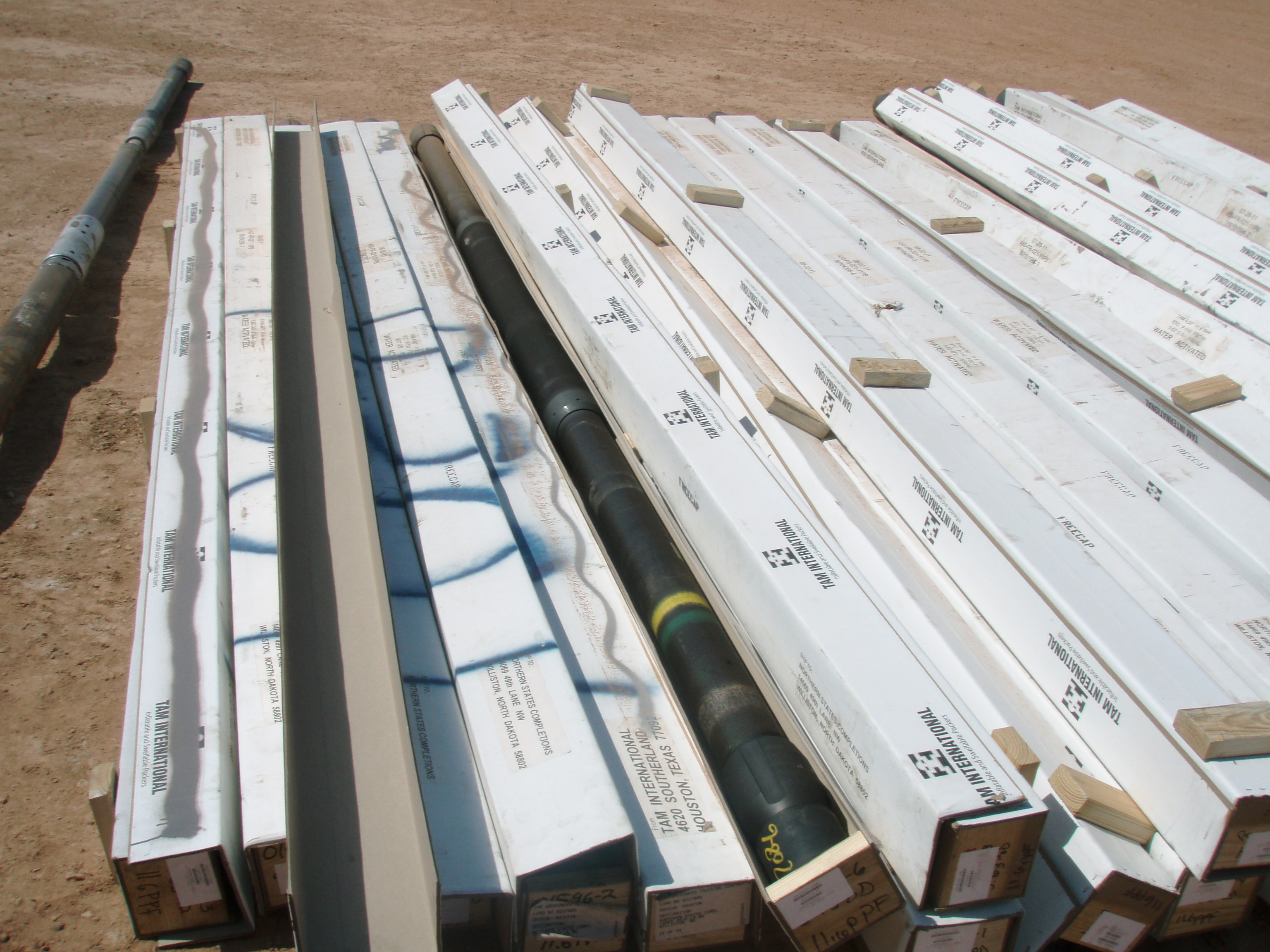 Fracking sleeves